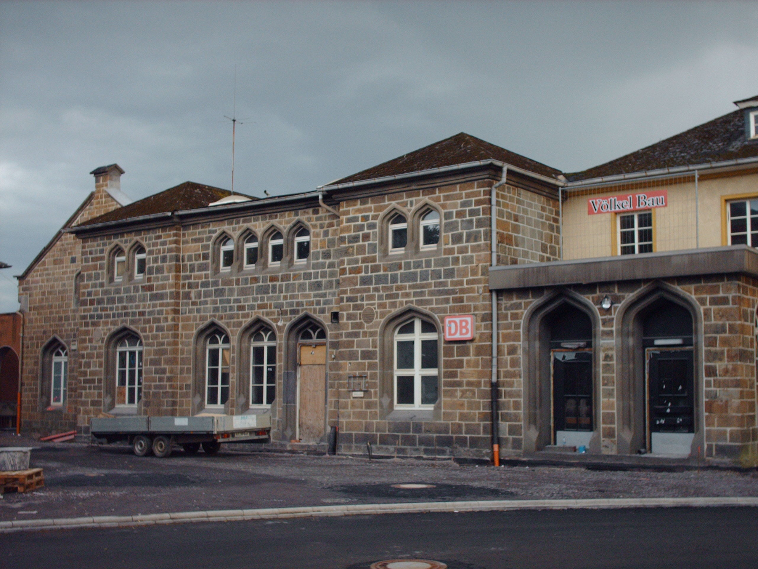 Kreuztal station, Kreuztal, Germany check usage